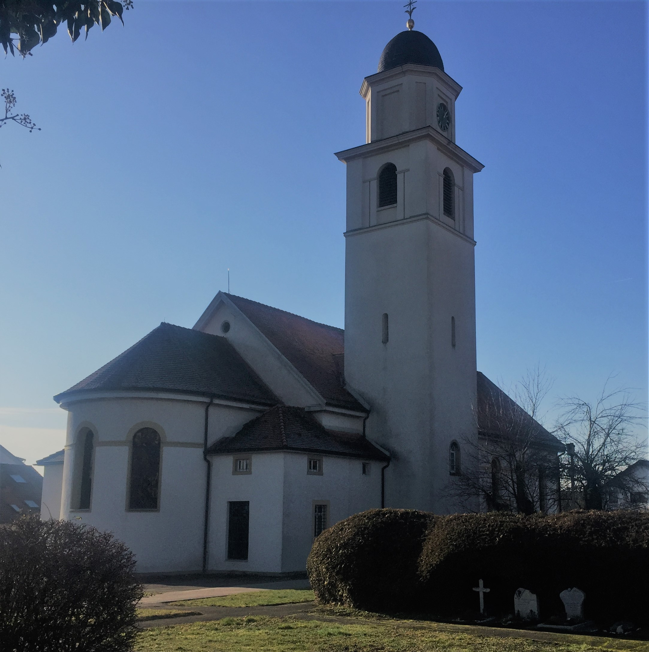 Church St. Alban in Herlikofen